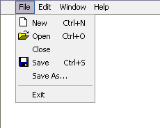 An example of a menu (computing GUI widget). This is not a screenshot of a real program - I just drew it, and it's meant to look simple and generic.